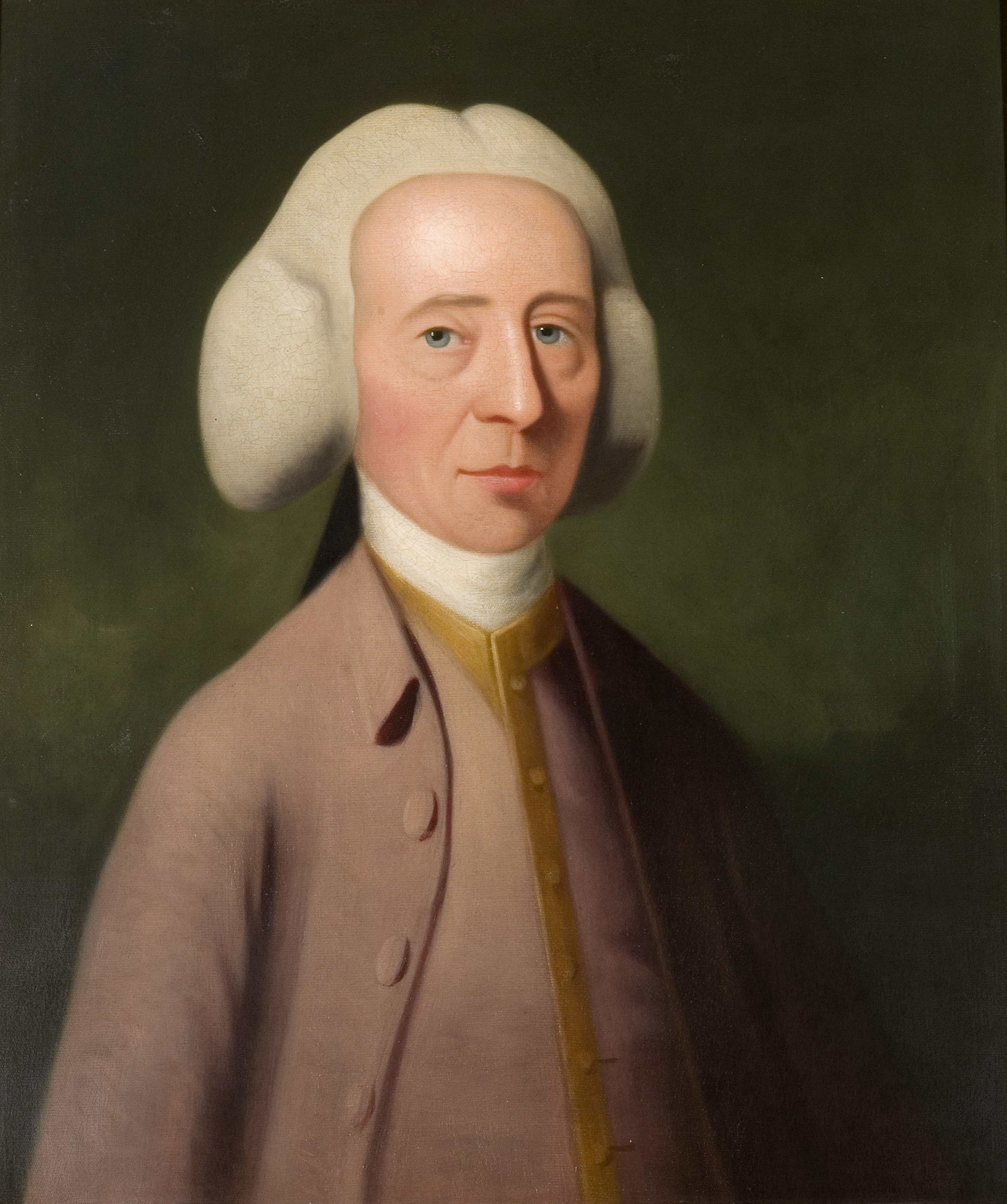 An oil-on-canvas portrait of Charles Gray (1696-1782), MP of Colchester, among other interests, now hanging in the Hollytrees Museum in Colchester. The description there states that it is a copy of another painting (previously) hanging in Birch Hall. 61x51 cm.